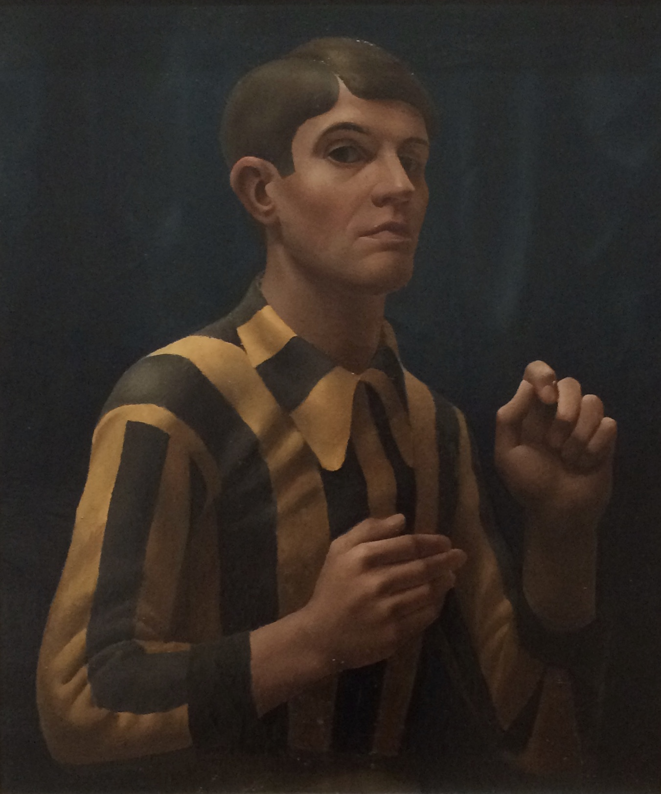 From the collection of the Latvian National Museum of Arts. Riga, Latvia.